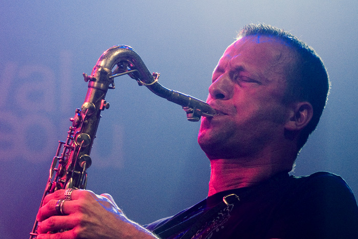 Mats Gustafsson at moers festival 2006 own photo, june 5, 2006- photo: nomo/michael hoefner